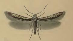 Stainton’s Natural History of the Tineina (1855–1873): Augasma aeratella